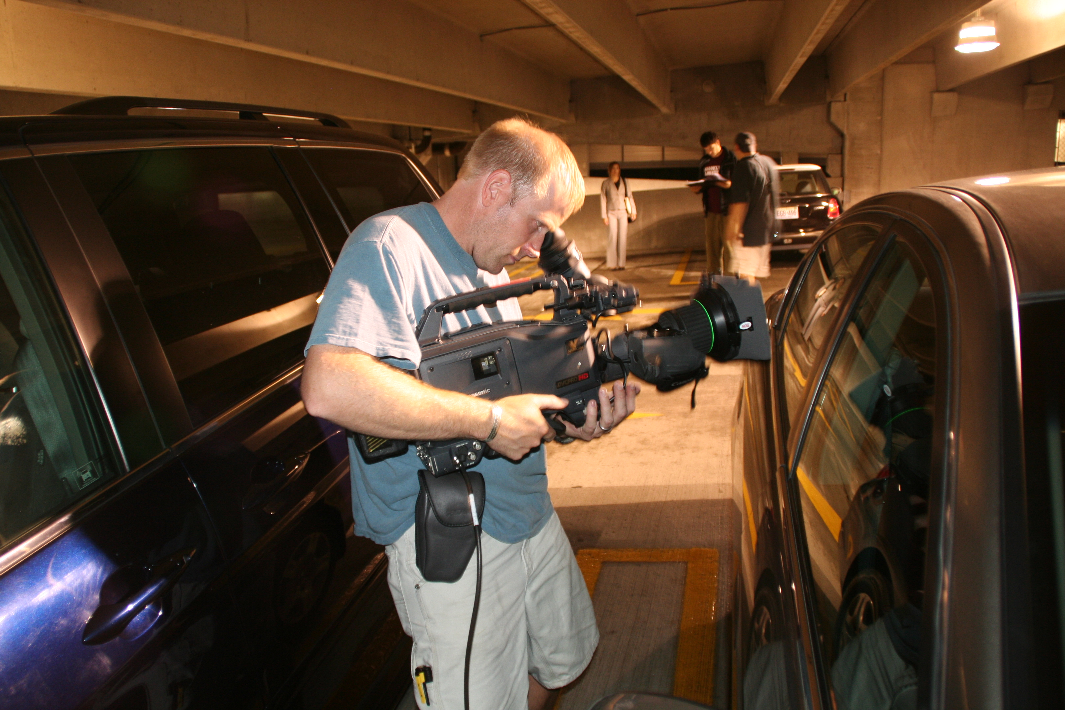 Bud Hayman setting up shot for TAKE OUT